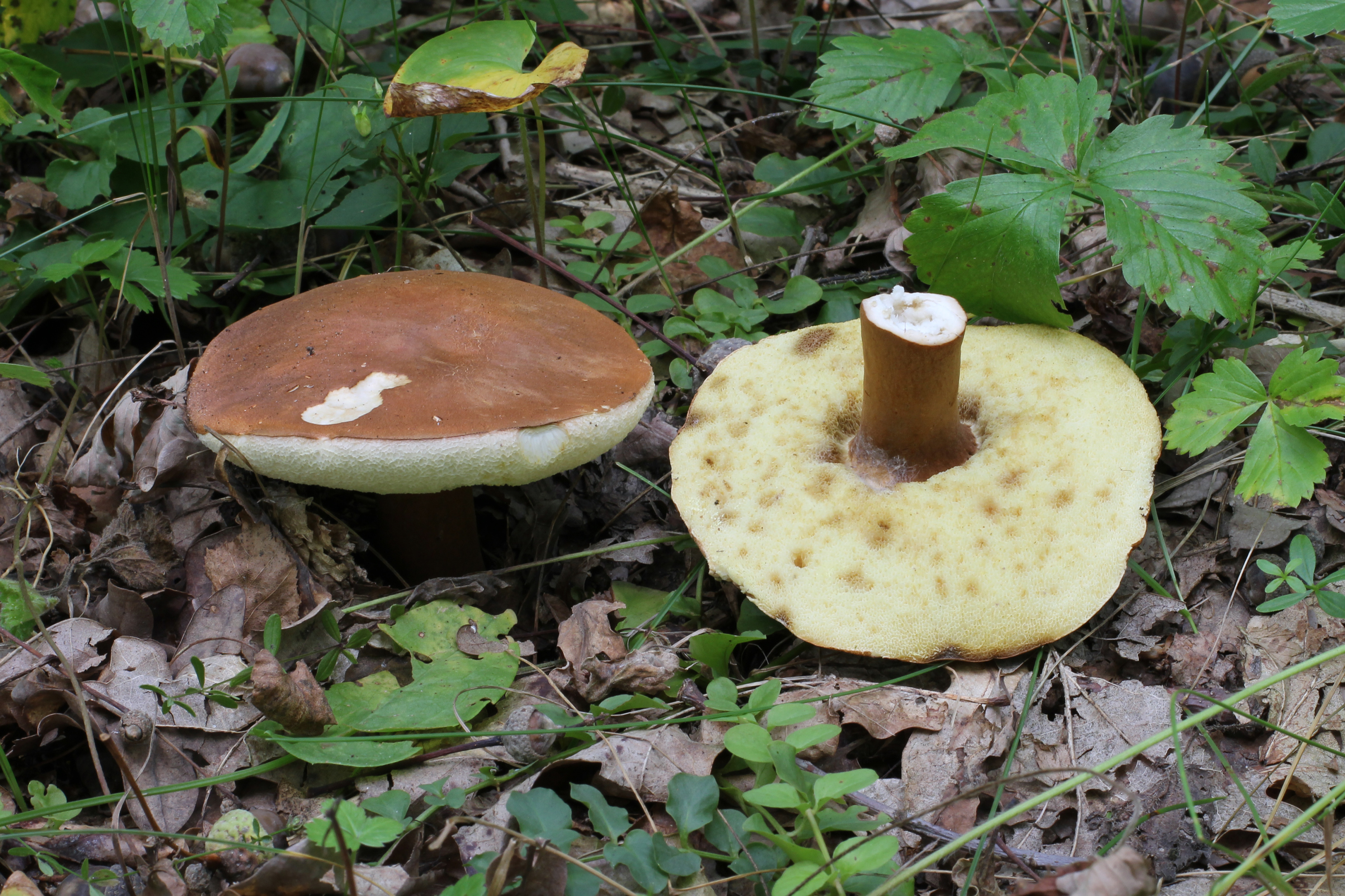 The chestnut bolete. Ukraine.